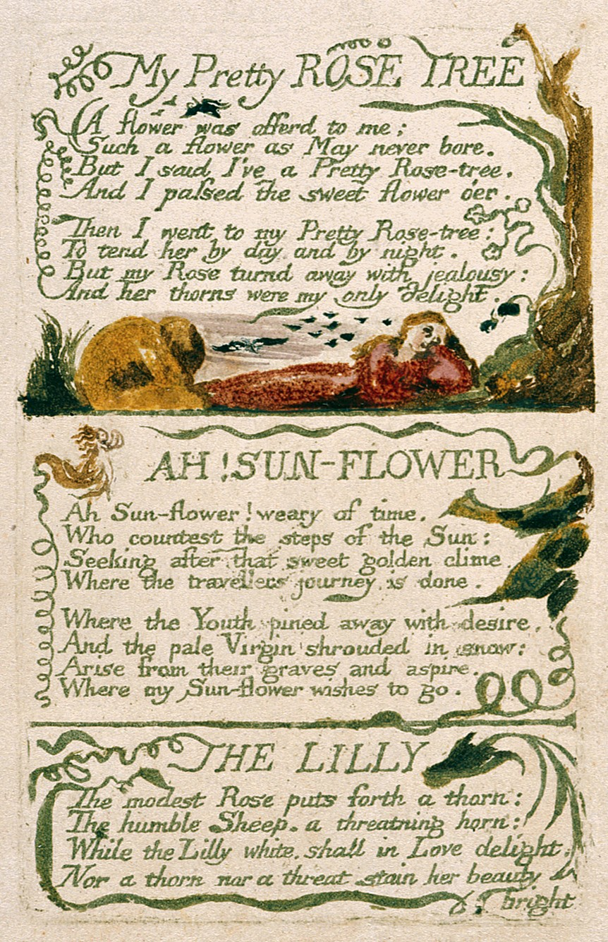 Songs of Innocence and of Experience, copy F object 47 My Pretty ROSE TREE